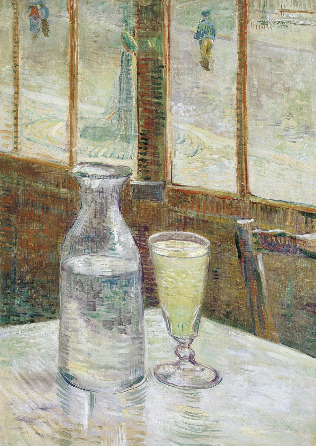 Cafe Table with Absinth